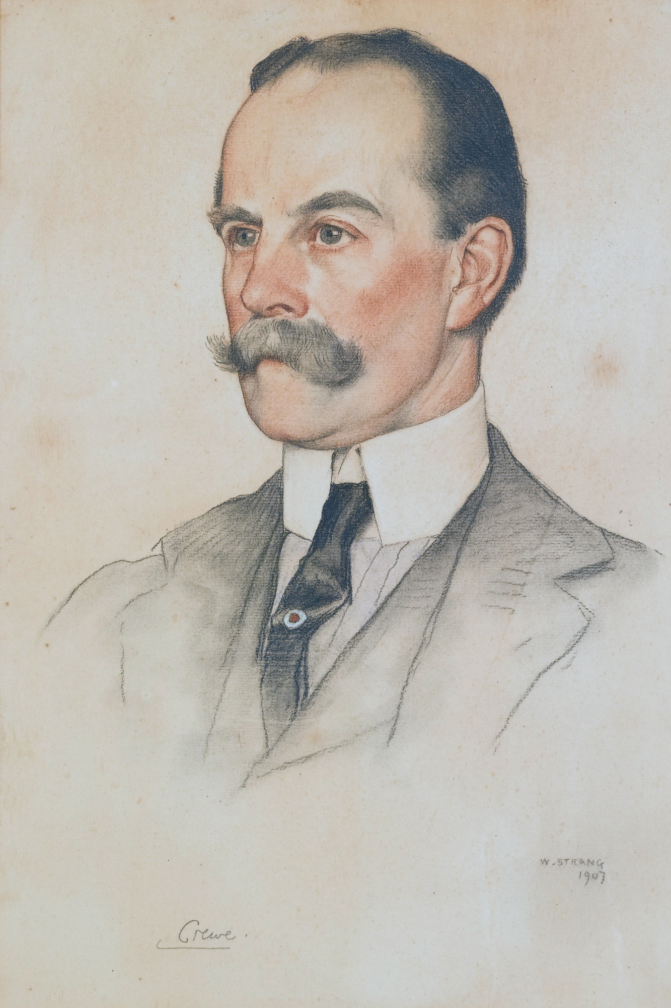 Robert Offley Ashburton Milnes, 1st Marquess of Crewe pastel with pencil 38 x 26 cm inscribed b.l.: Crewe signed b.r.: W. STRANG / 1907